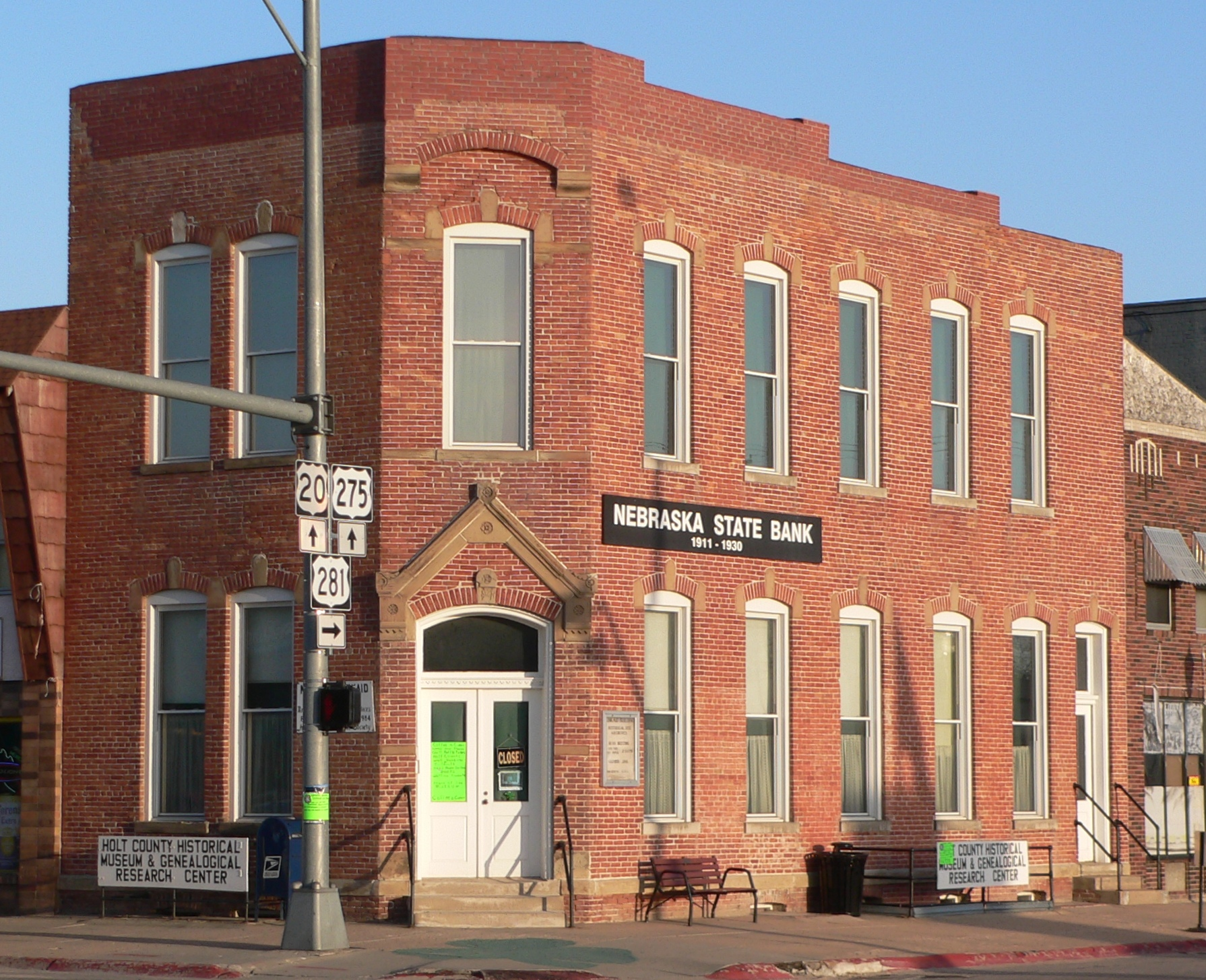 Old Nebraska State Bank Building, a.k.a. Moses Kinkaid Building, at 4th and Douglas Streets in O'Neill, Nebraska; seen from the northwest. The building was constructed in 1883, and is listed in the National Register of Historic Places. It now serves as the Holt County Historical Society Museum.